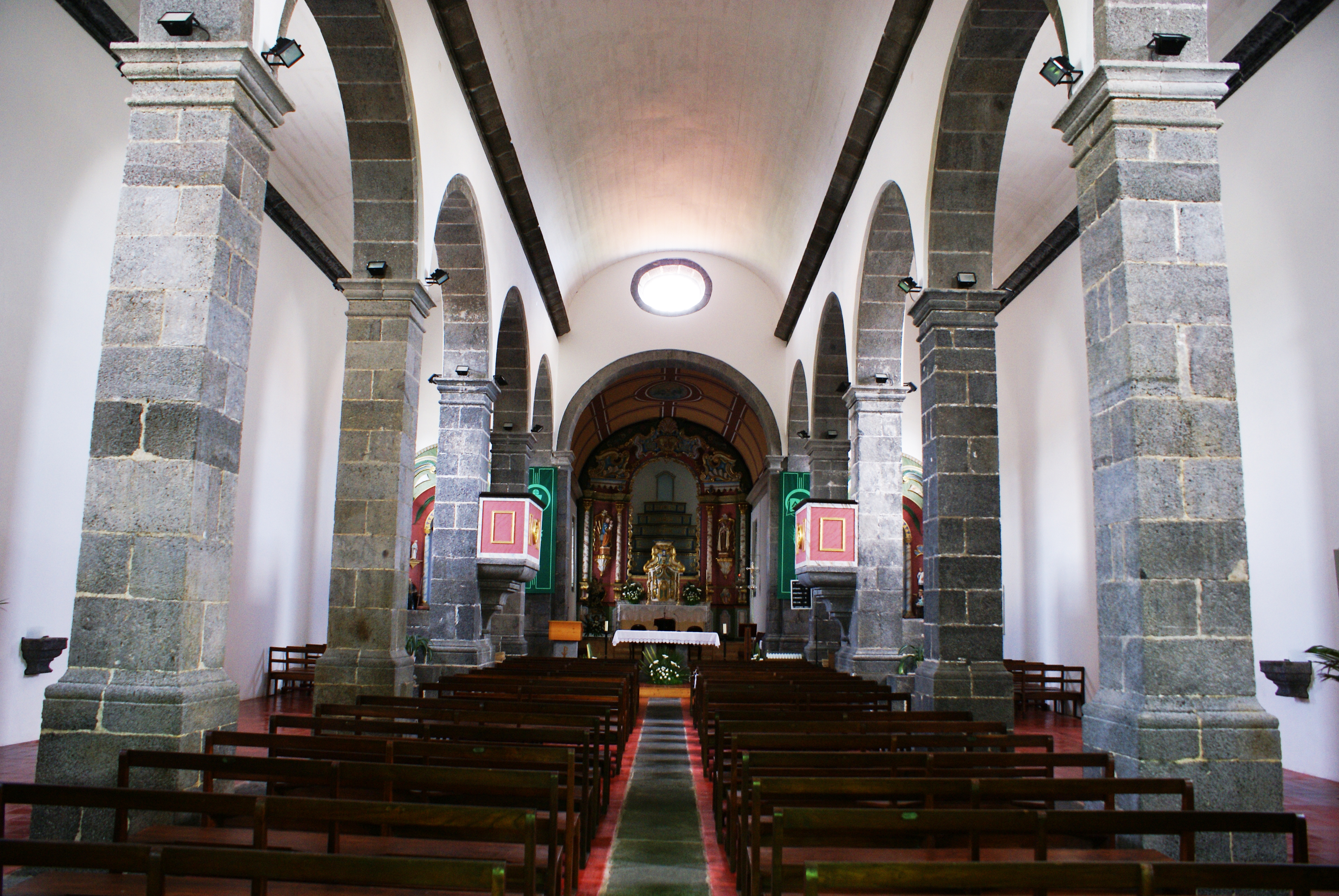 Nave of the Church of Nossa Senhora da Boa Nova, Bandeiras, Madalena, Pico (Azores), Portugal